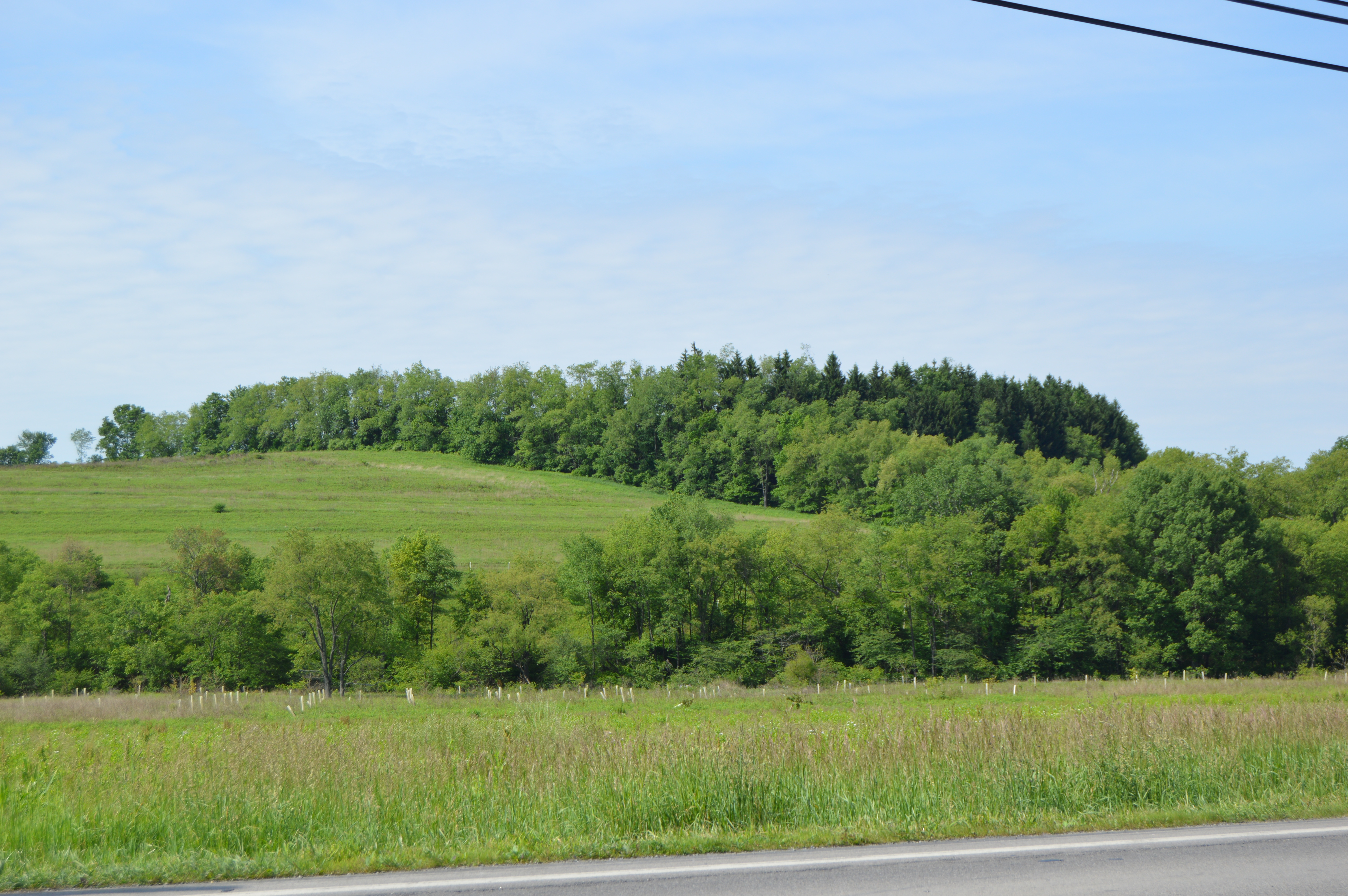 Fields and woods seen looking south from Pennsylvania Route 68 east of Sligo in far southern Piney Township, Clarion County, Pennsylvania, United States.